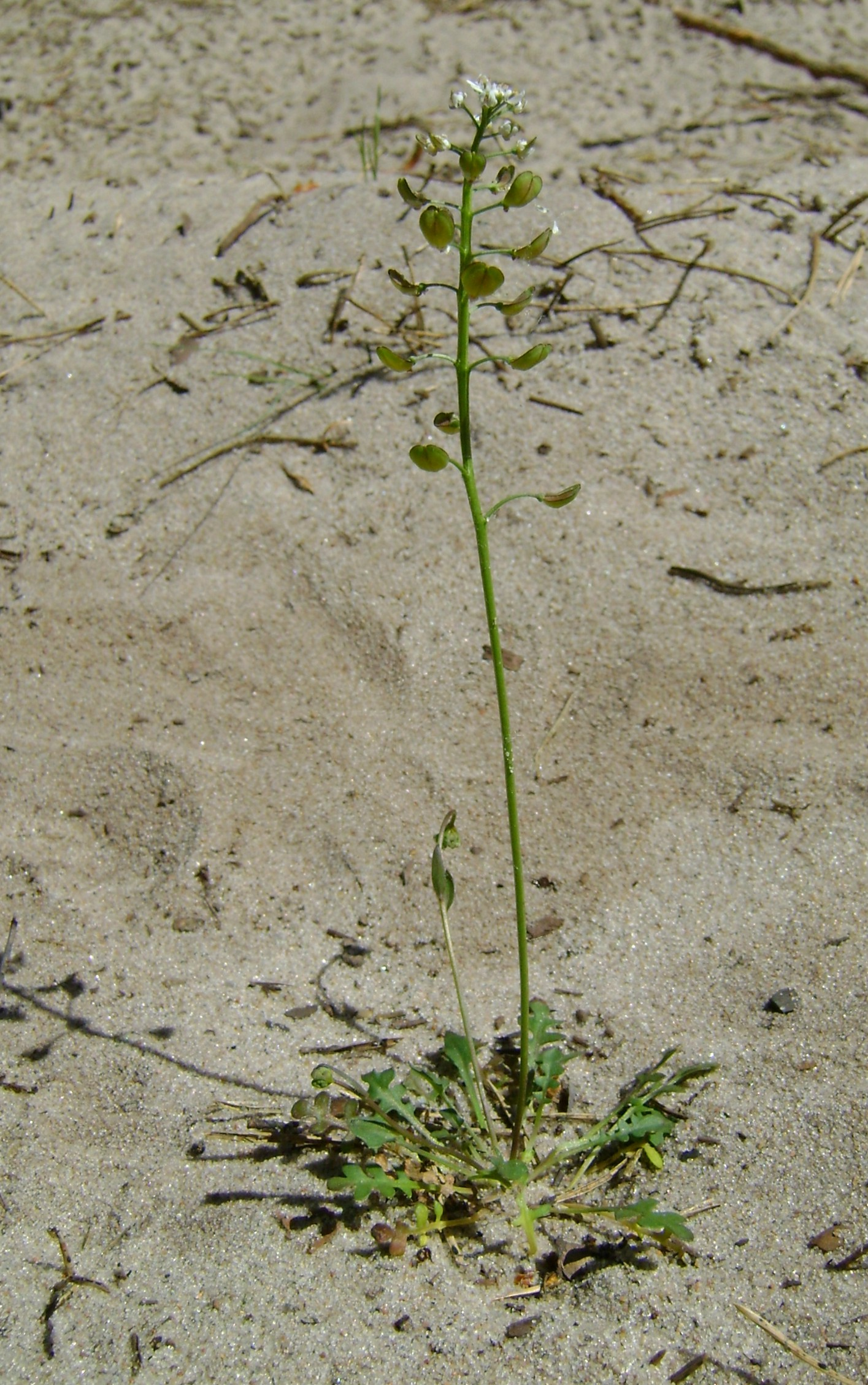 Teesdalia nudicaulis near Ustka (NW Poland)